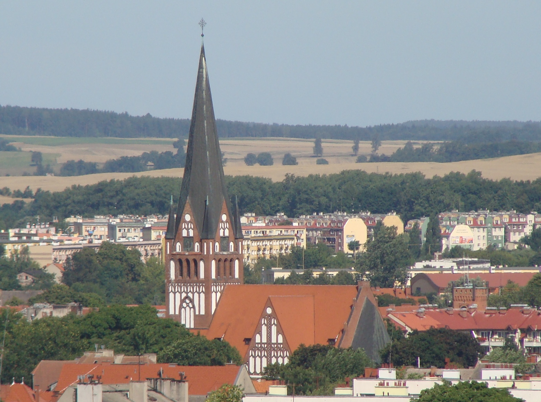 Neogothic Church of Saint Mary in Szczecinek.